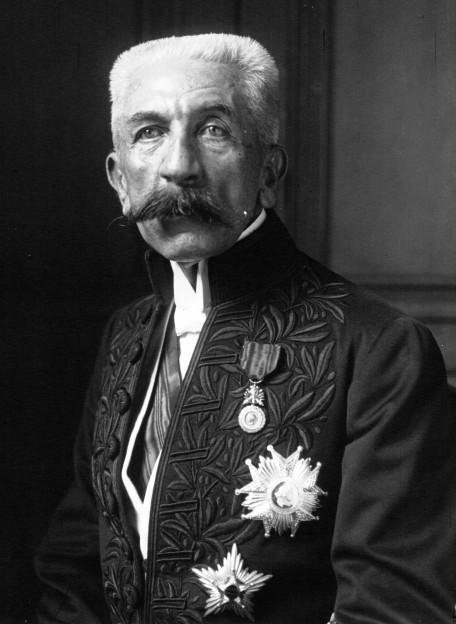 French general Hubert Lyautey (1854-1934) as a member of the Académie française in ceremonial grand habit vert.